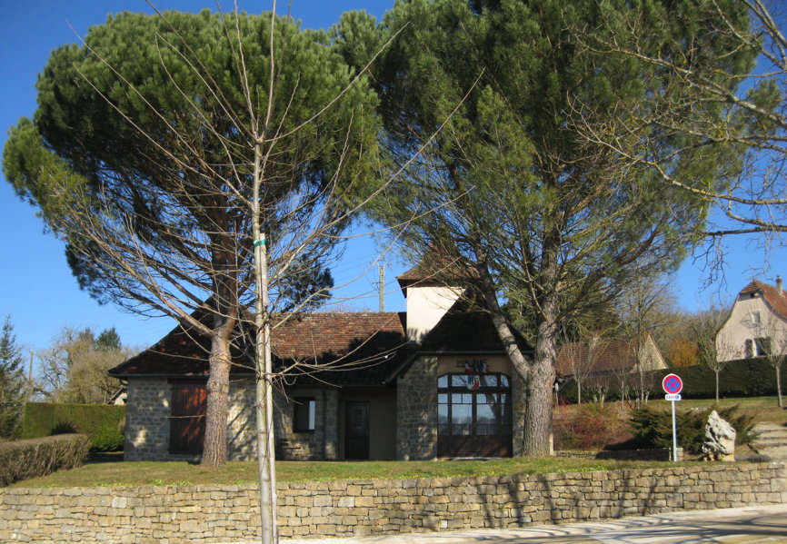 Picture of the town hall, Bio, Lot, France